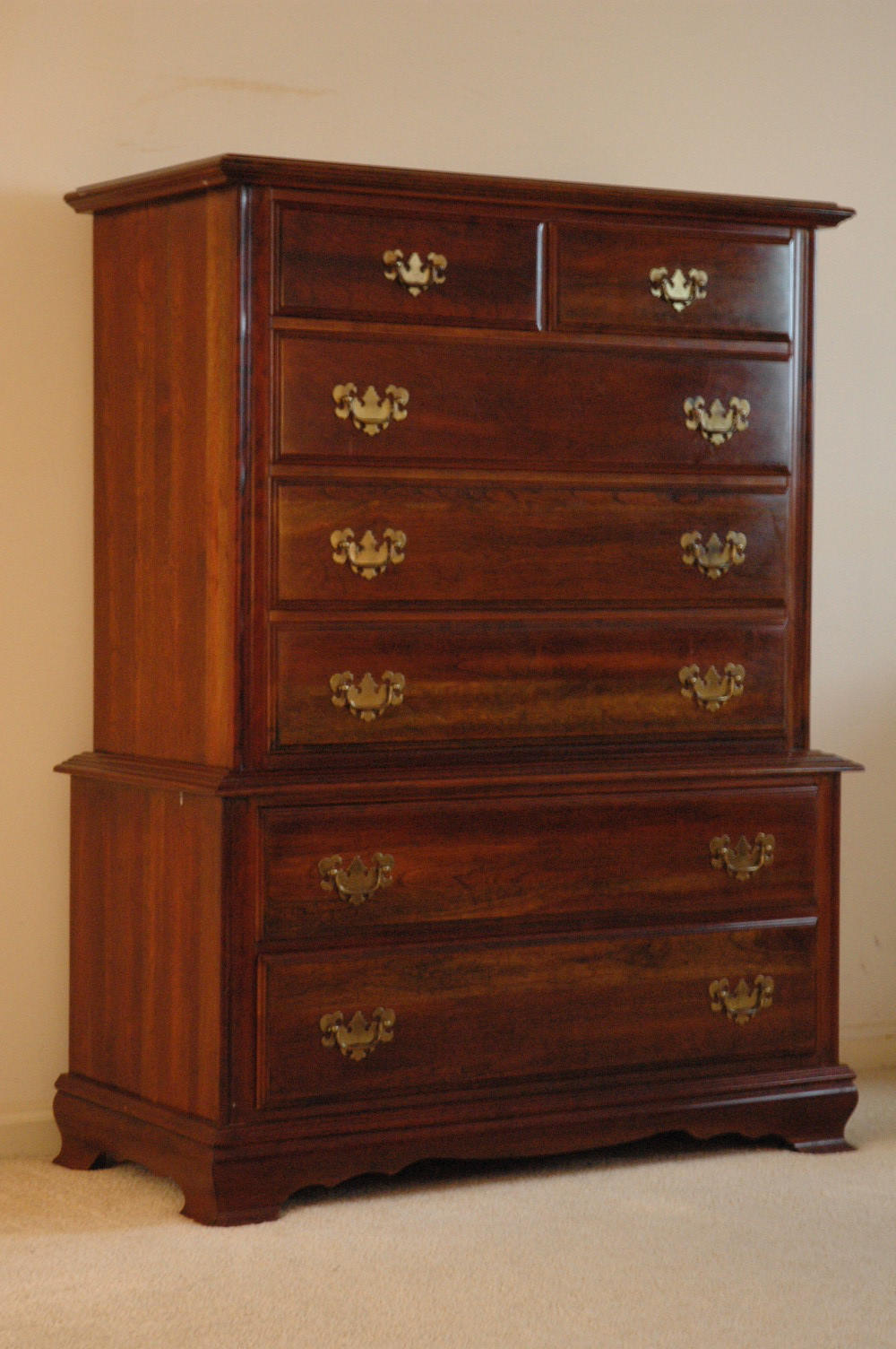 Chest of drawers, for en.wikipedia article, my photo.